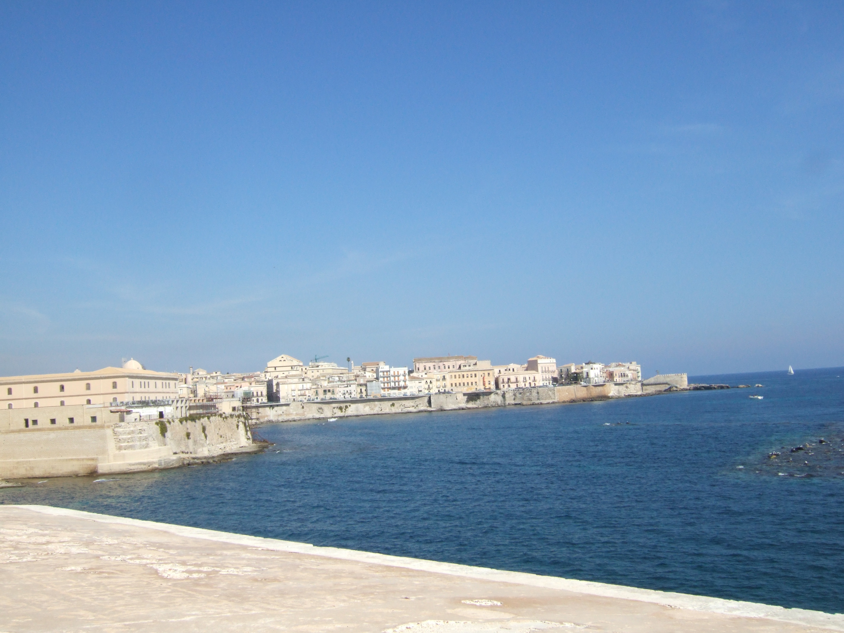 The view back to Ortigia from Castello Maniace in Syracuse.